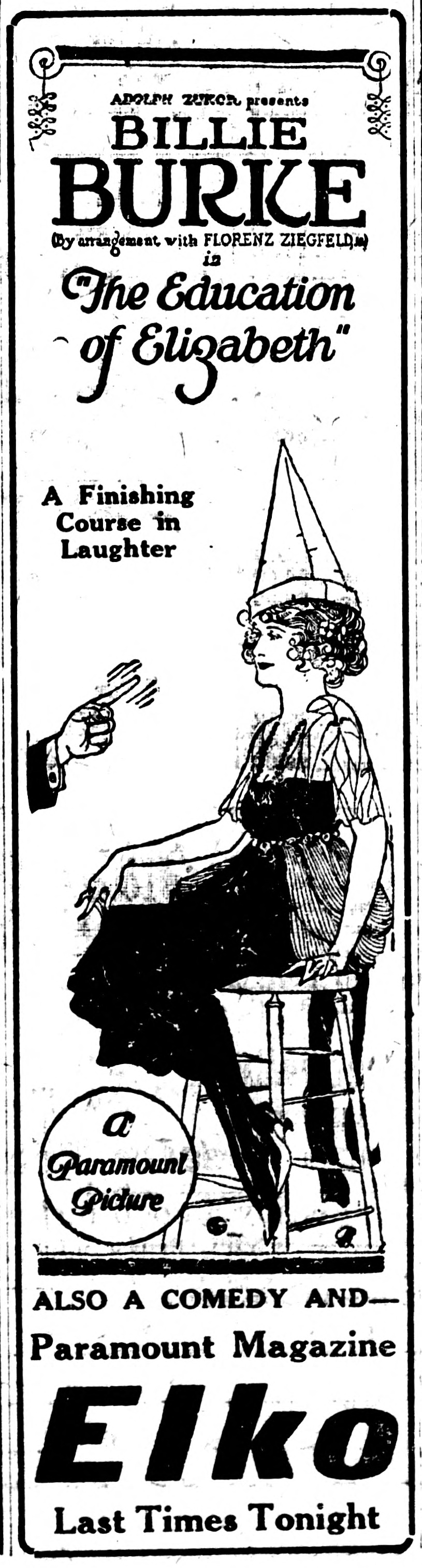 The Education of Elizabeth is a 1921 American silent comedy romance film produced by Famous Players-Lasky and distributed by Paramount Pictures. This is a newspaper advertisement.